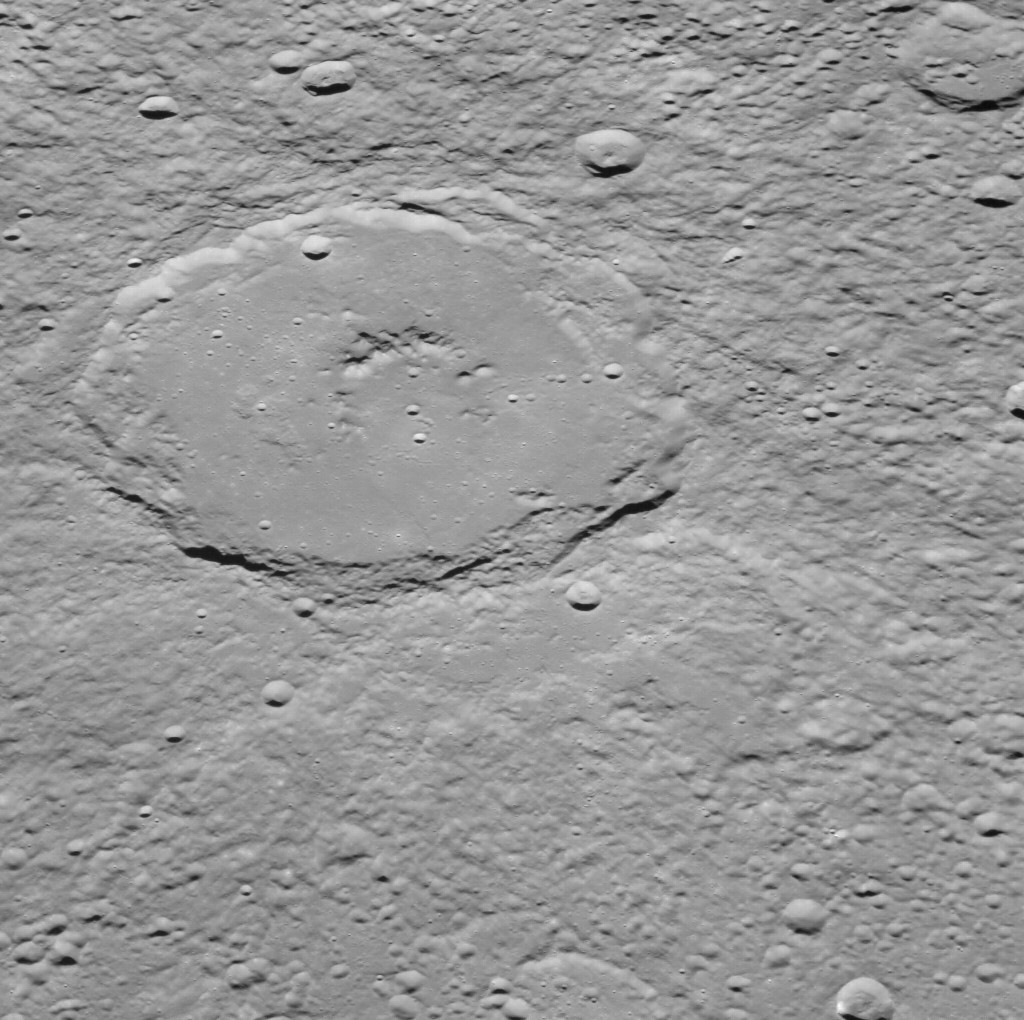 Oblique view of Stravinsky crater on Mercury. MESSENGER Wide Angle Camera image. Approximate north is in upper left. Emission Angle: 43.2 Incidence Angle: 71.3 Latitude: 50.9 Longitude: 280.3 Phase Angle: 28.1